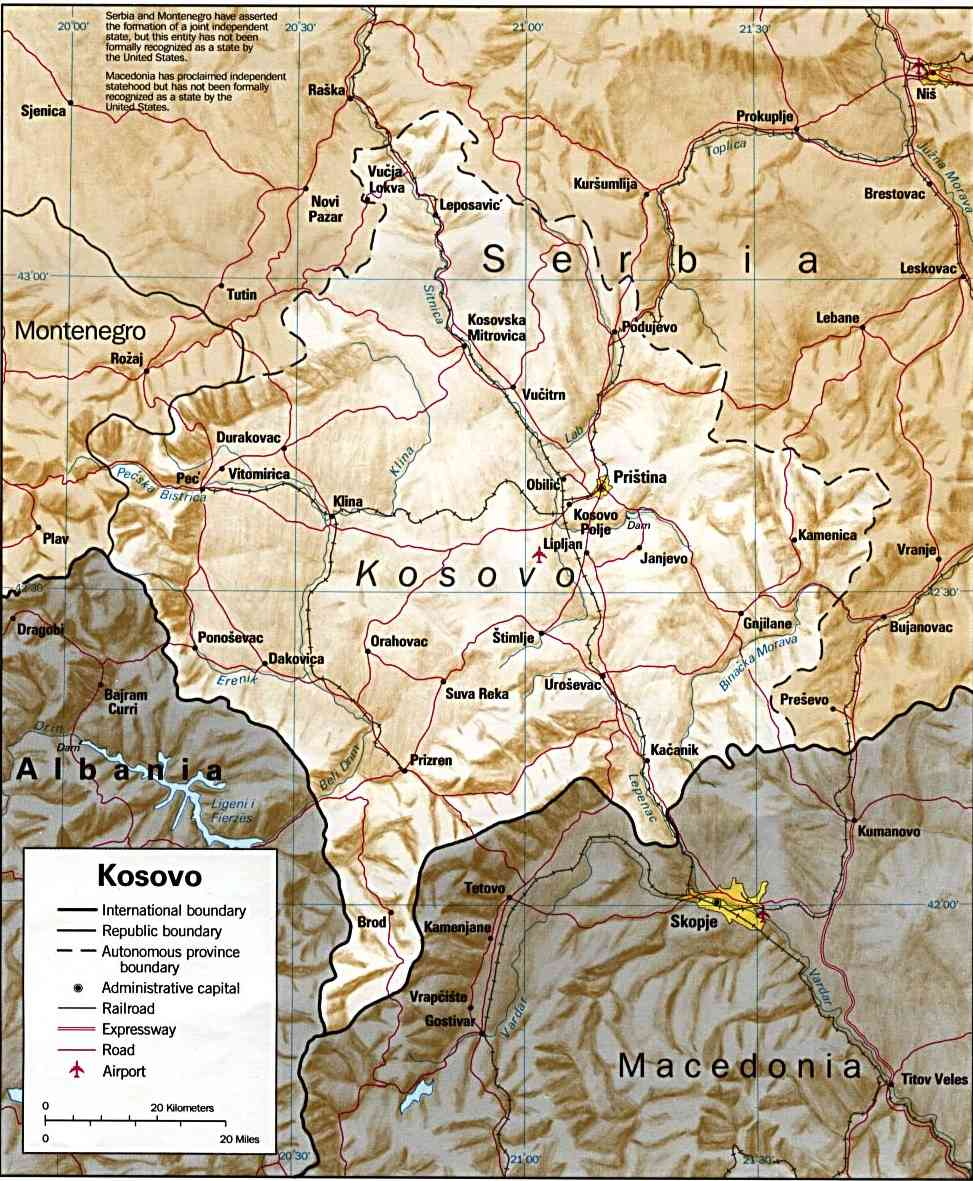 Relief map of Kosovo.